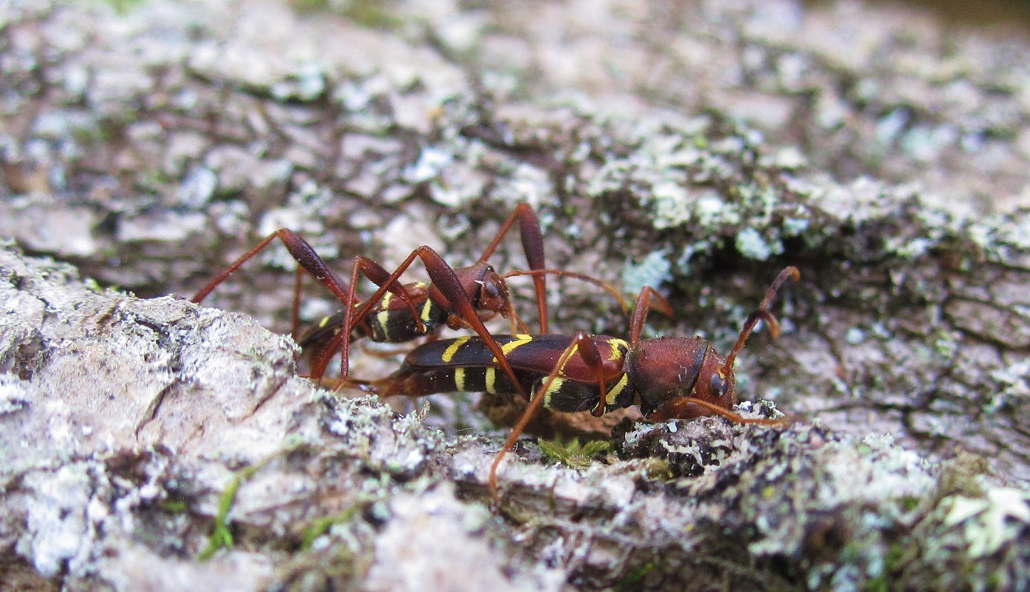 Red-Headed Ash Borer (Neoclytus acuminatus) mating pair Coxing Trailhead, Mohonk Preserve, Ulster County, New York July 3, 2012